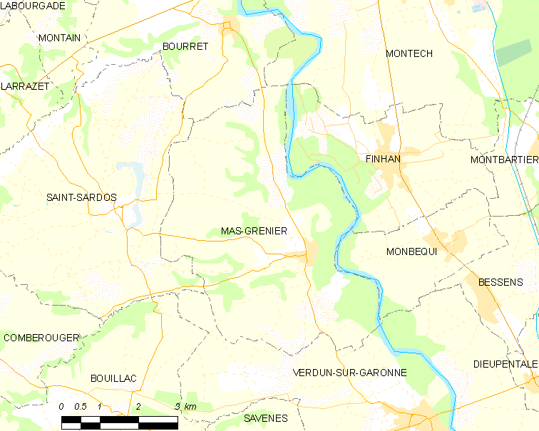 Map of French municipality Mas-Grenier